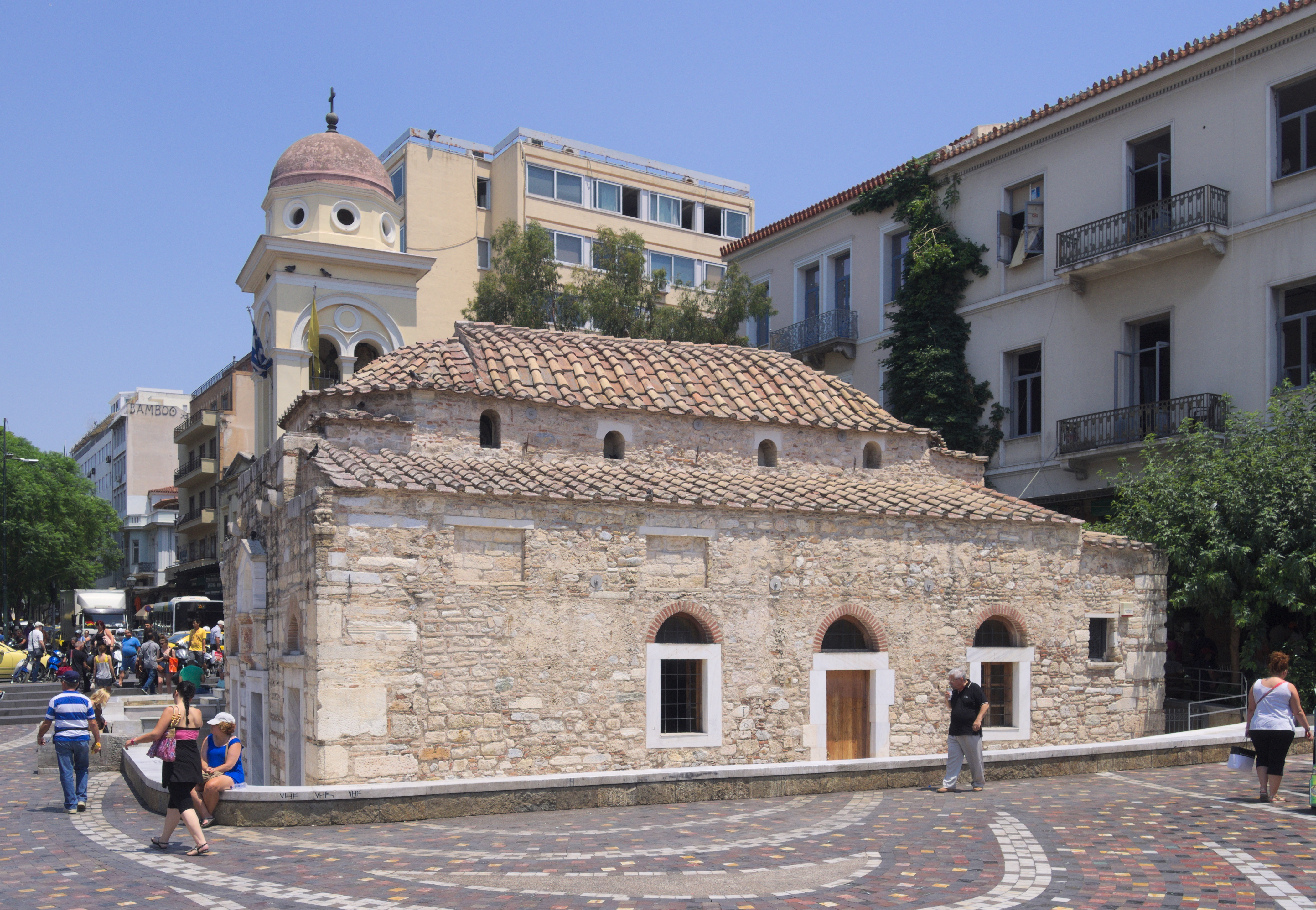 The byzantine church Panayia Pantanassa at Monastiraki square, Athens.